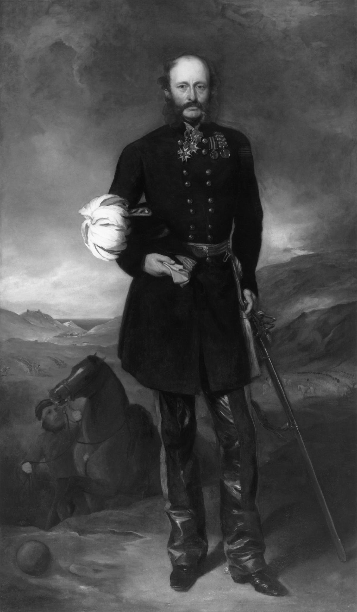 George Charles Bingham, 3rd Earl of Lucan, by Sir Francis Grant (died 1878). All images in this batch have been confirmed as author died before 1939 according to the official death date listed by the NPG.